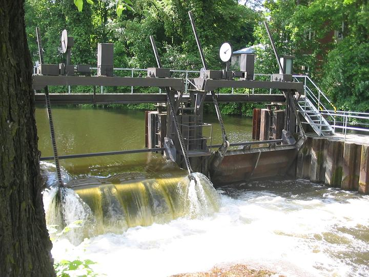 Weir of Dahme-Lock Neue Mühle in the village Neue Mühle, part of the town Königs Wusterhausen in the district Dahme-Spreewald, state Brandenburg, Germany.